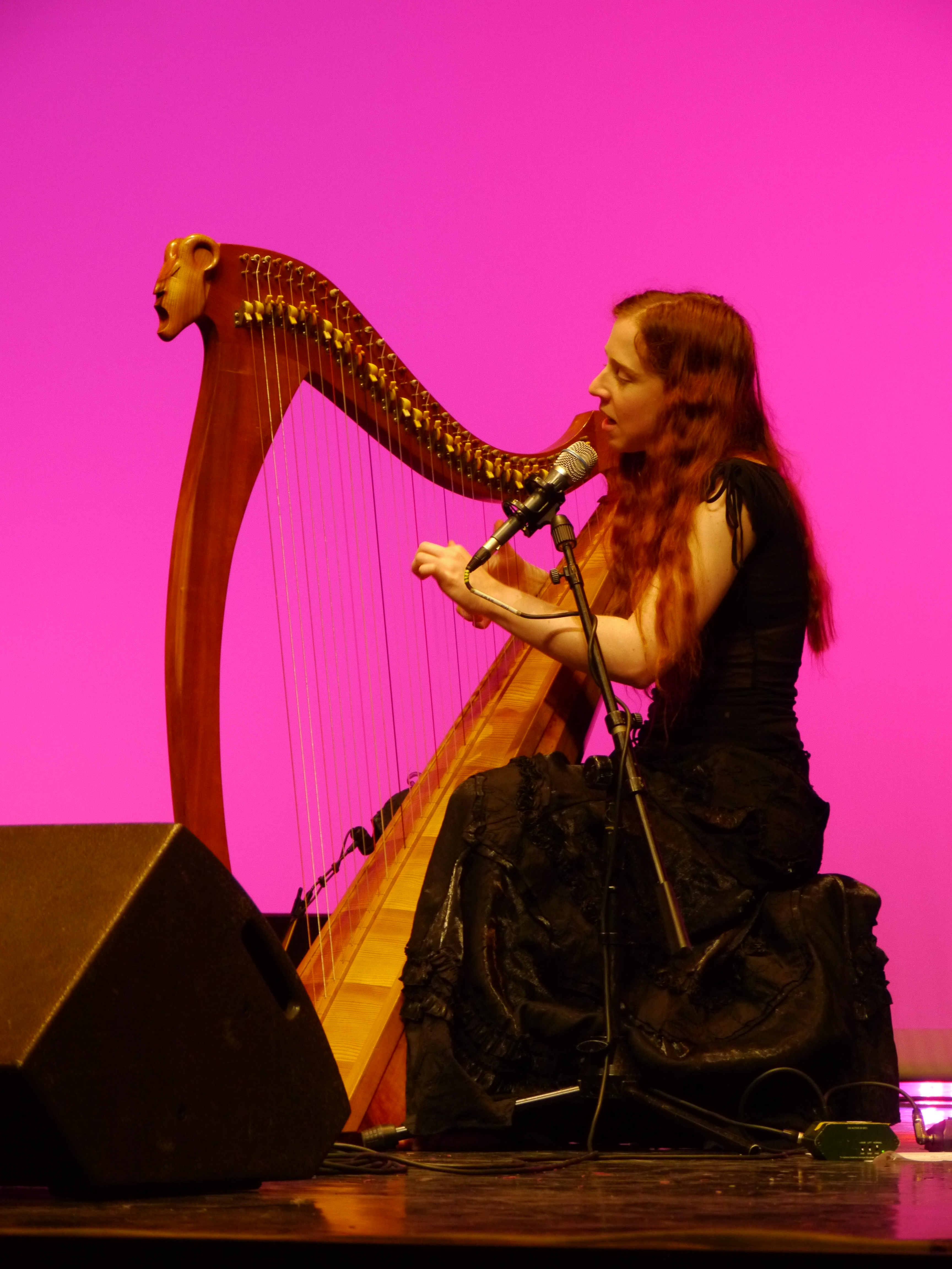 Mang'Azur festival of Toulon - official site